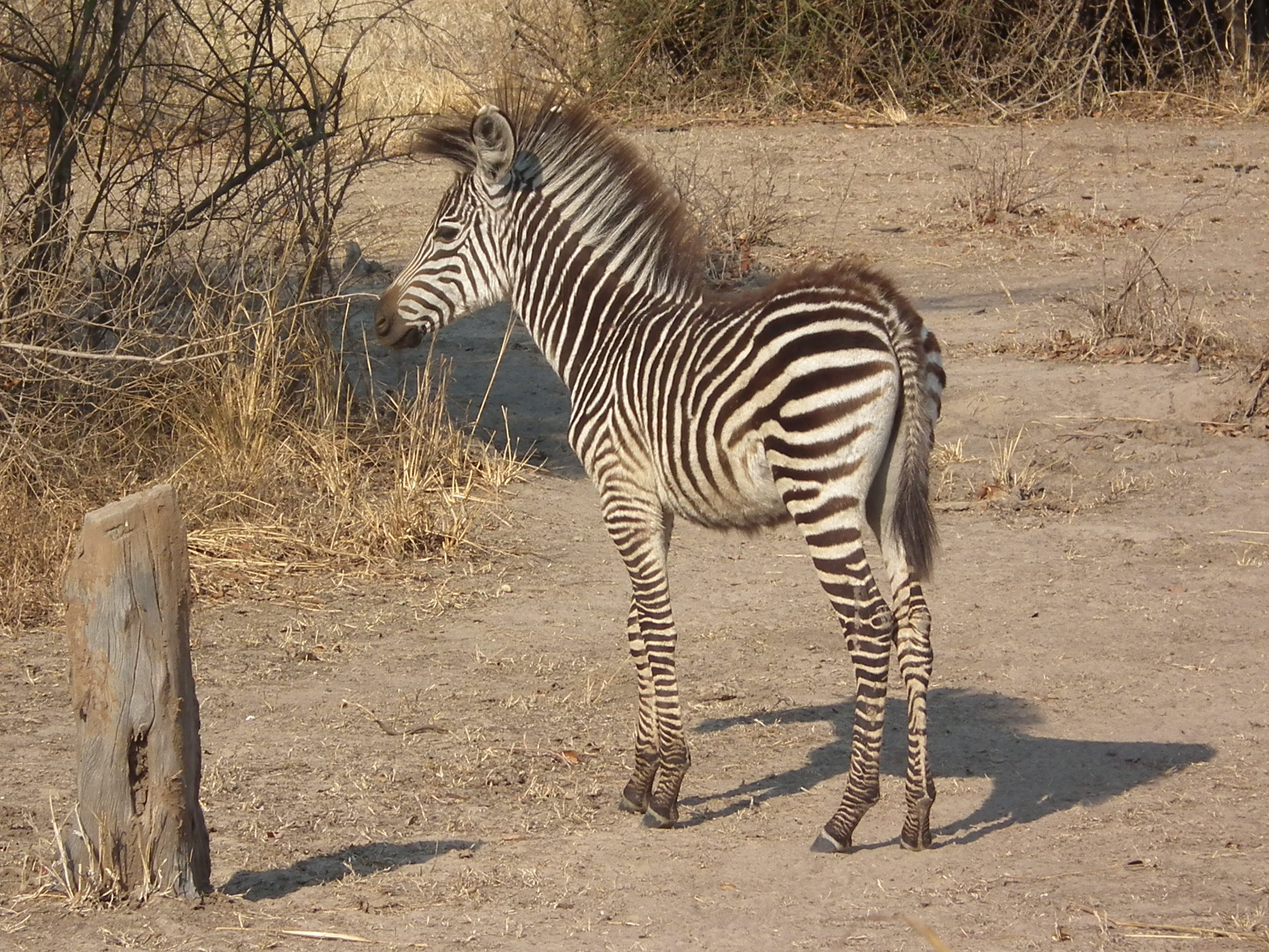 Crawshay's zebra (Equus quagga crawshayi) foal in South Luangwa NP, Zambia